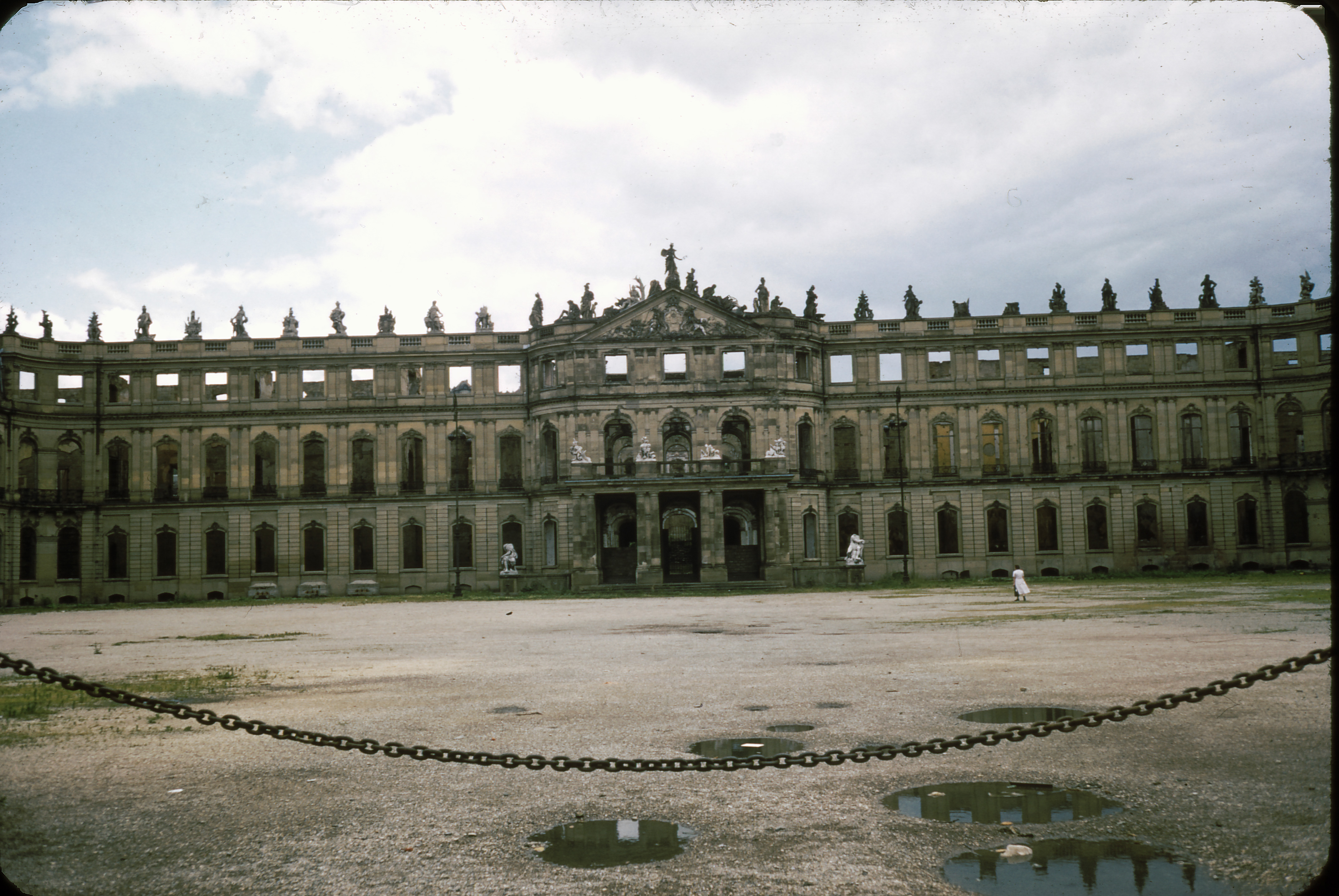 Neues Schloss Stuttgart, photographed in 1955 or 1956 shortly prior to its initial restoration.